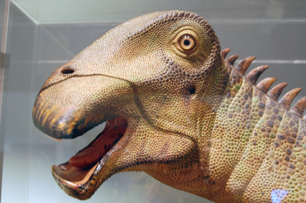 Photo: model of Nigersaurus taqueti at the Australian Museum, Sydney. Model by Tyler Keillor.